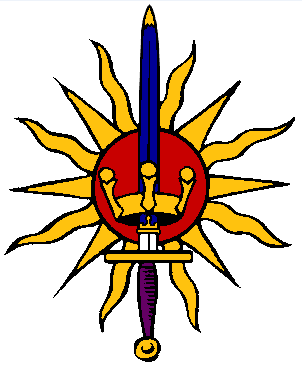 The badge of the Imperial Society of Knights Bachelor.